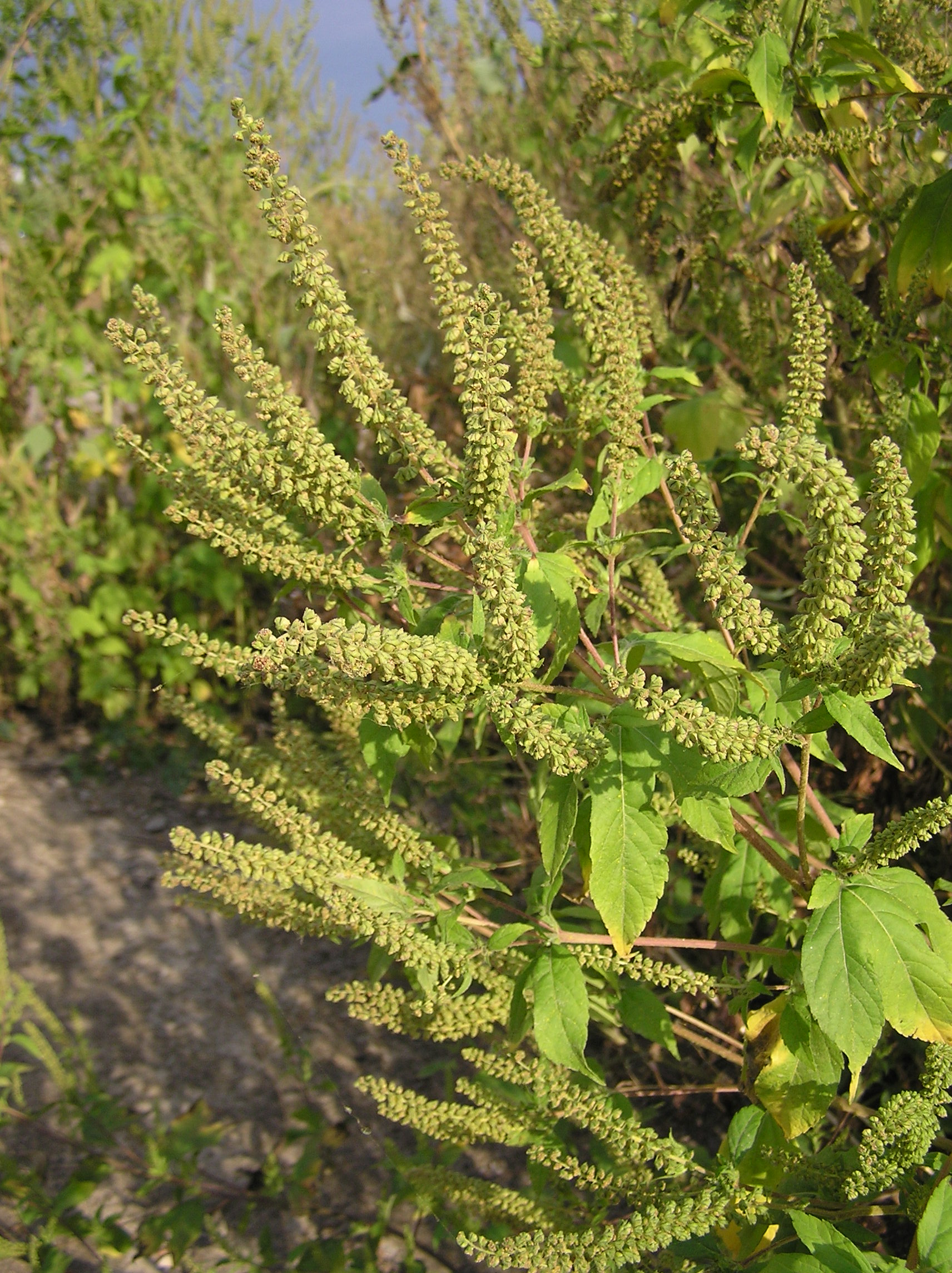 Giant Ragweed (Ambrosia trifida L.); inflorescences. Habitat: concrete-covered bank of Volgograd Reservoir. Engelssky District , Saratov oblast, Russia.